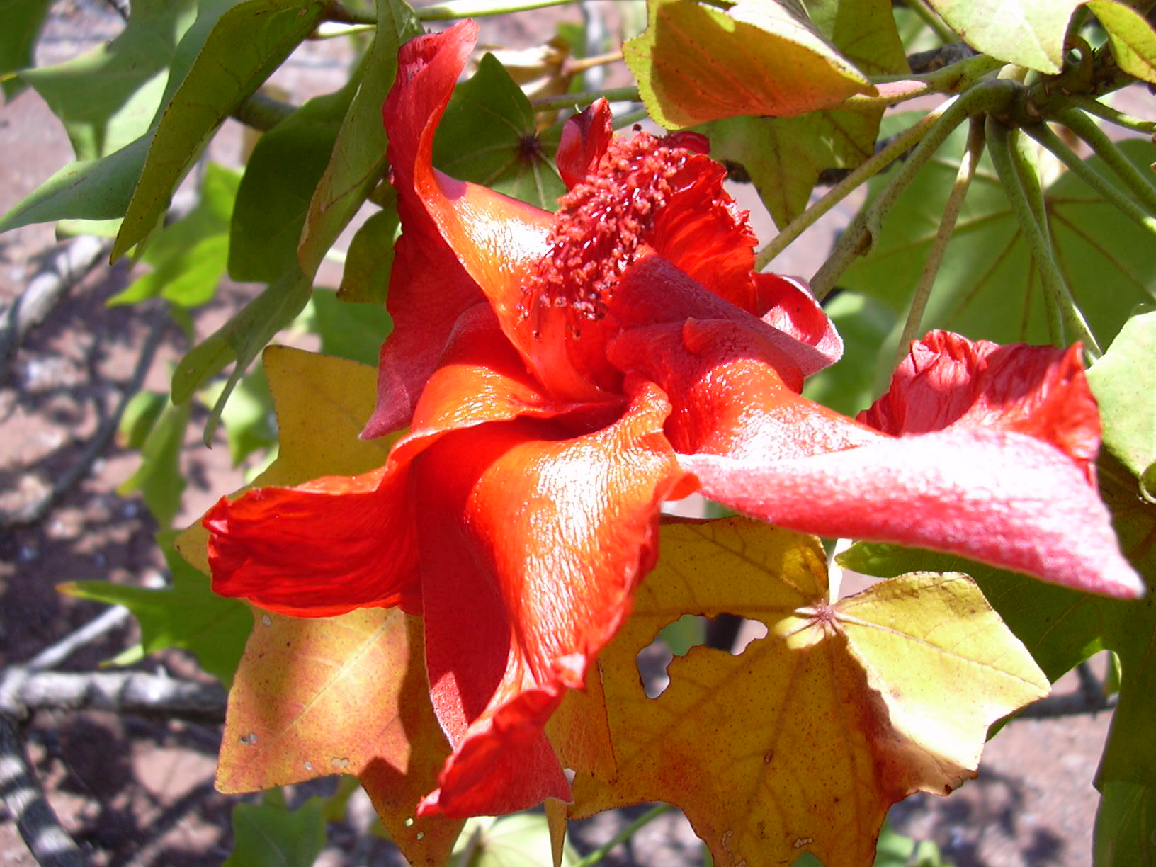 Kokia cookei (flower). Location: Maui, State nursery Kahului